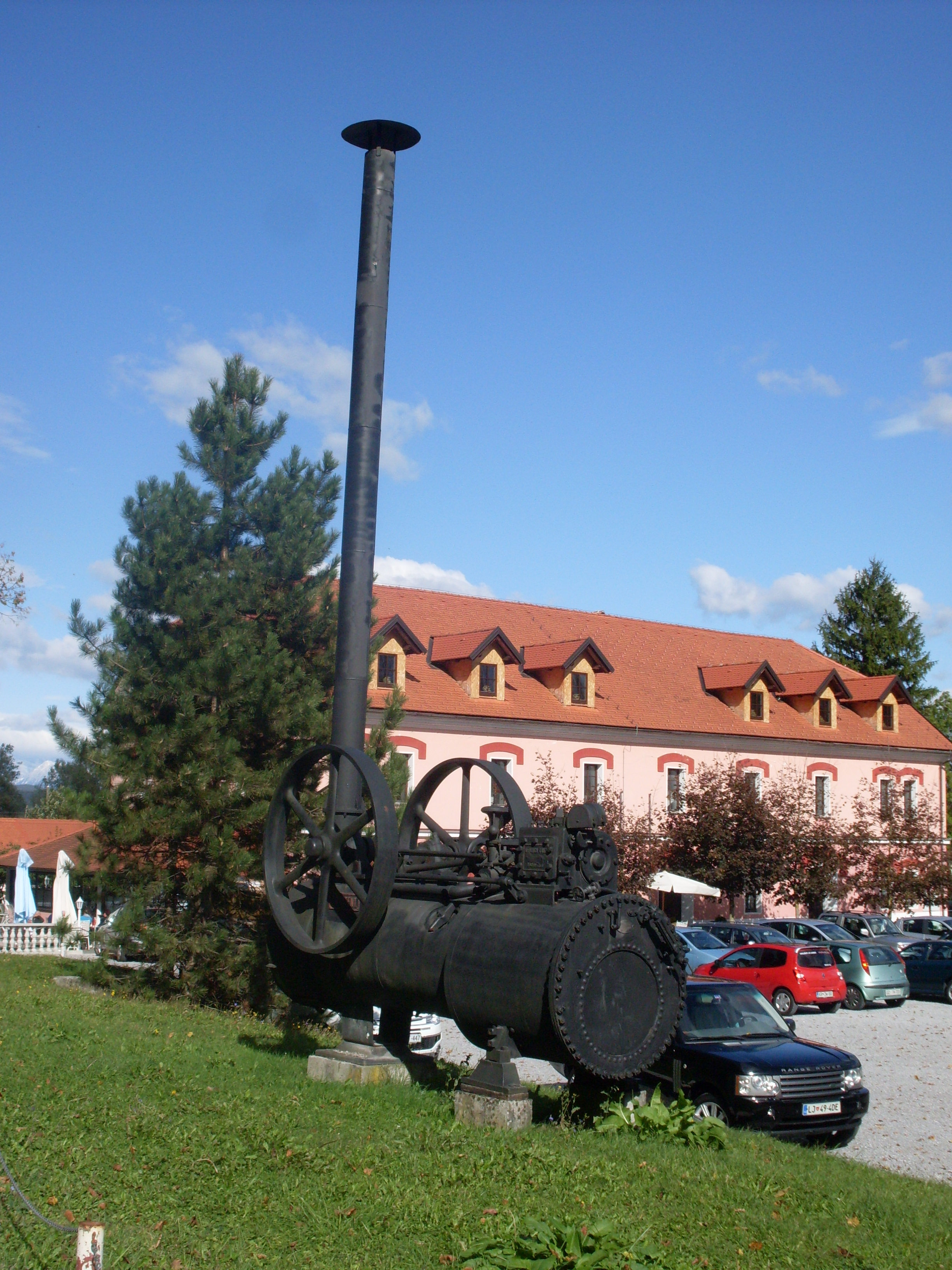 A steam engine exhibited in front of the Technical museum of Slovenia in Bistra near Vrhnika. The steam engine was produced by Heinrich Lanz AG in Mannheim, other details are unknown.